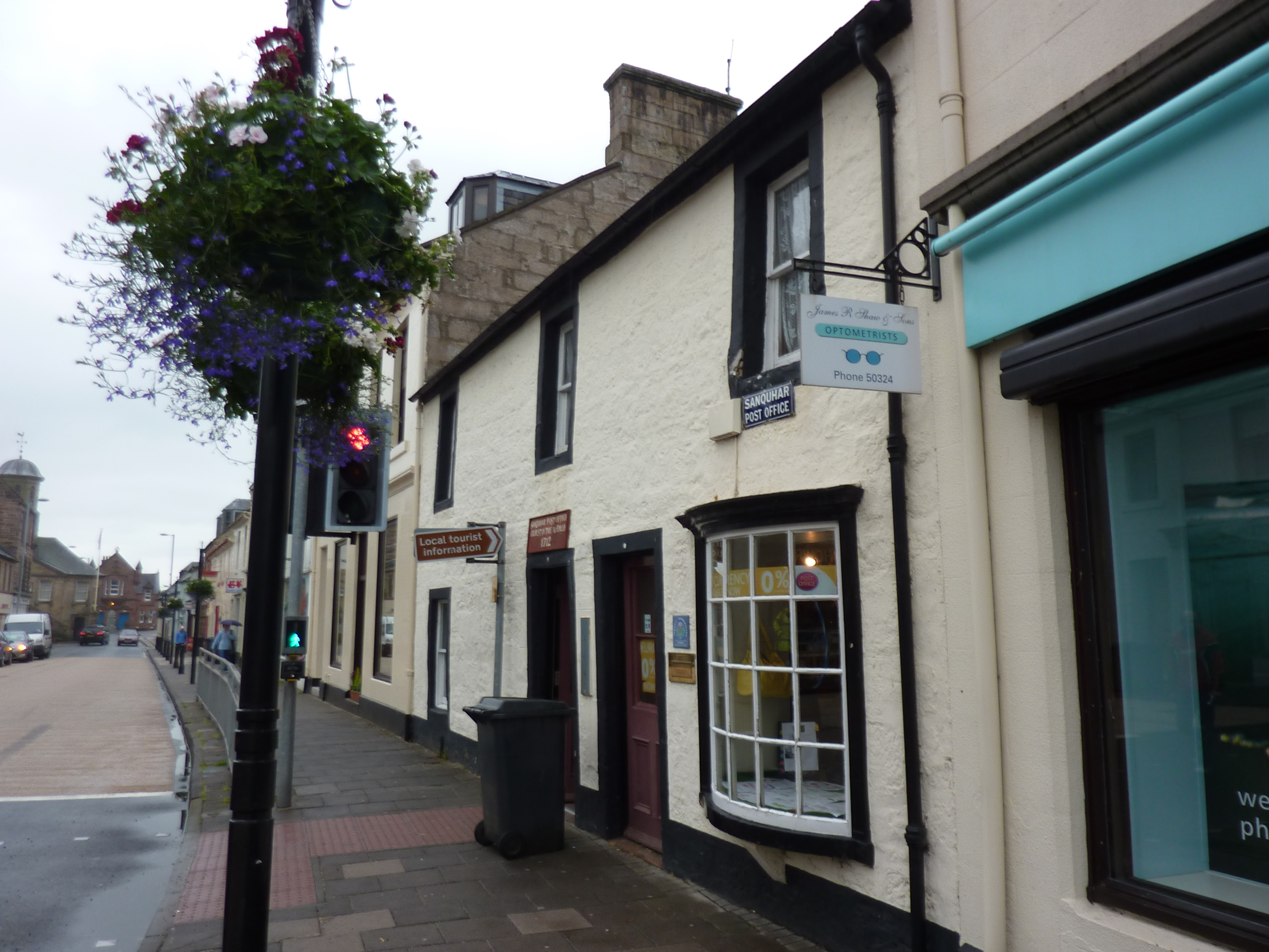 Somehow this building has been in continuous use as a post office since 1712. Day 9 of the Southern Upland Way blogged about at .uk/southernuplandway/day9